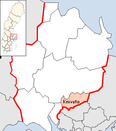 Knivsta Municipality in Uppsala County Designd by me, based on Image:Uppsala County.png